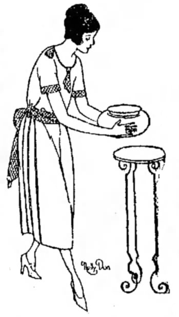 House dress manufactured by Nelly Don and designed by Nell Donnelly Reed, May 1922. White cross-bar flaxon apron frock.